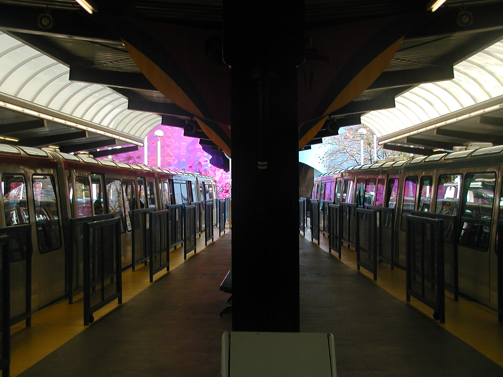 Seattle monorail station and trains